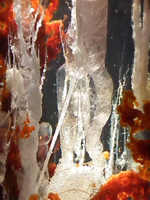 Silicate garden or chemical garden